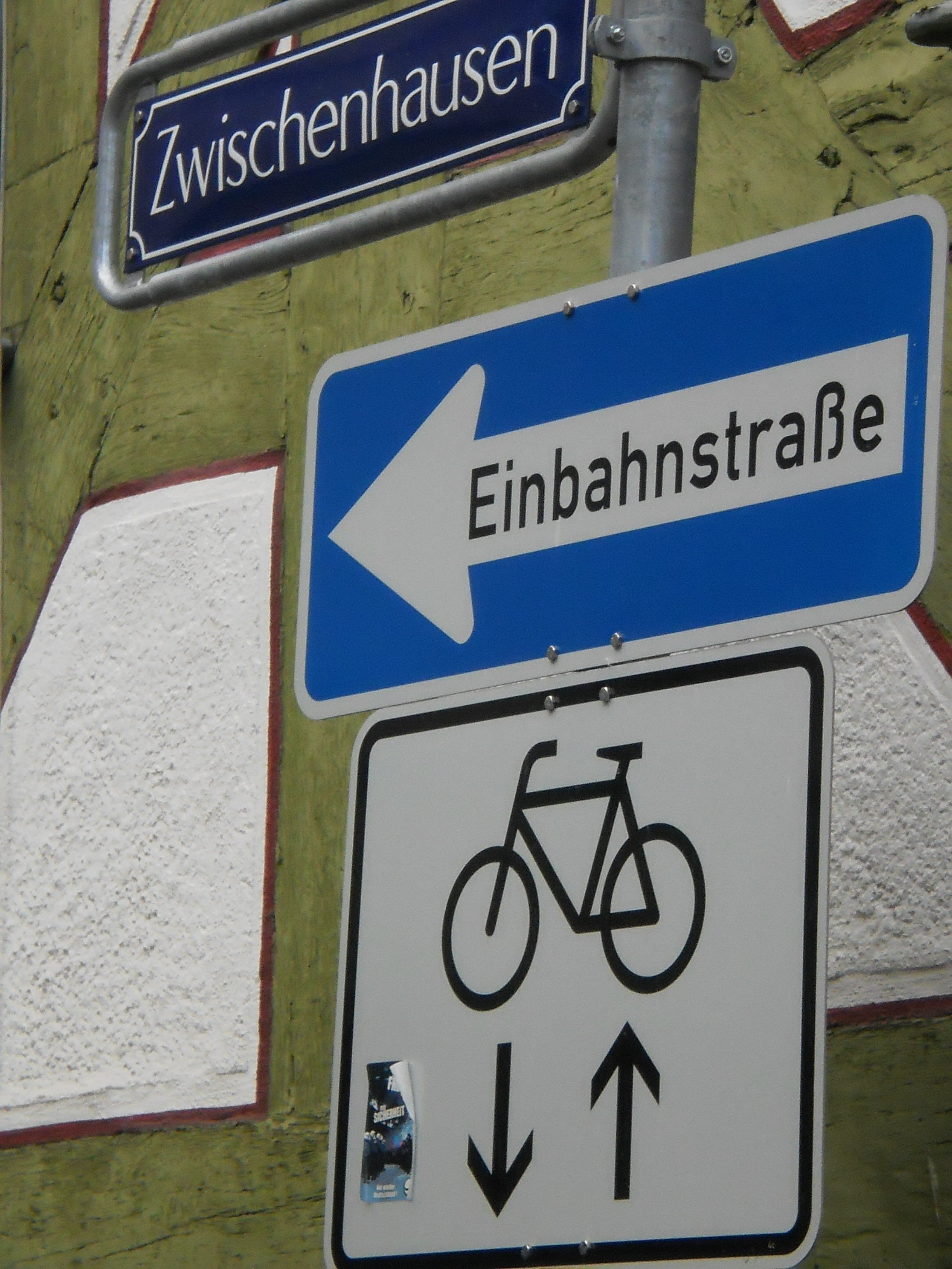 Sign of Contra-flow cycling in a one way street for better cycling in Marburg. (Photo 2016).